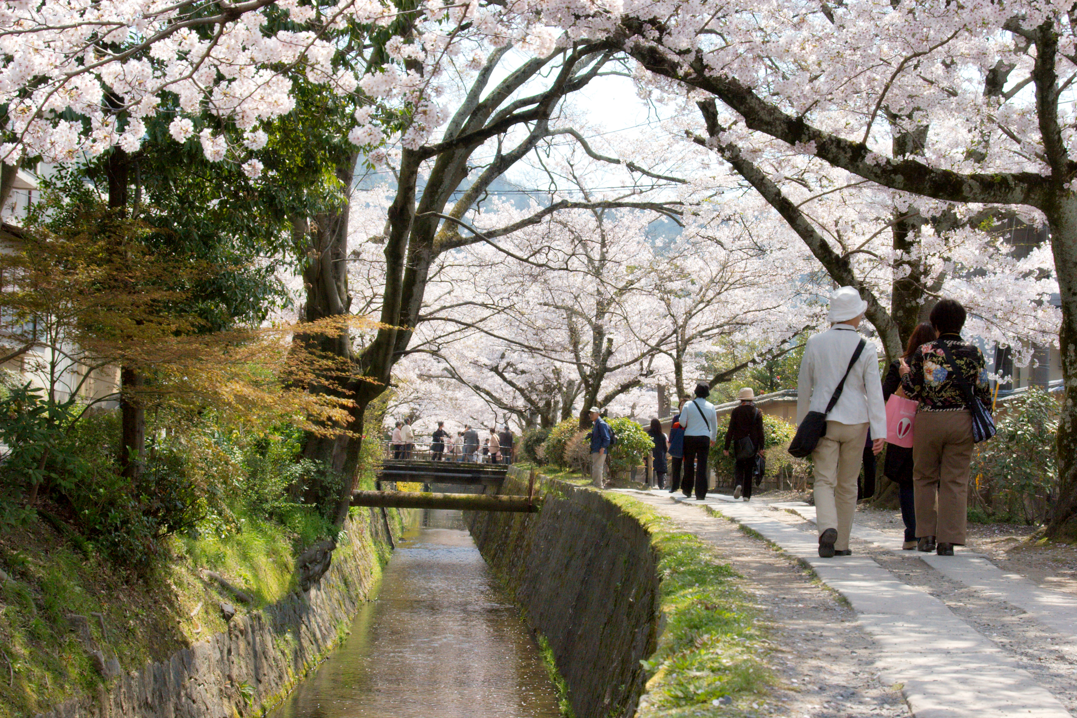 Path of Philosophy